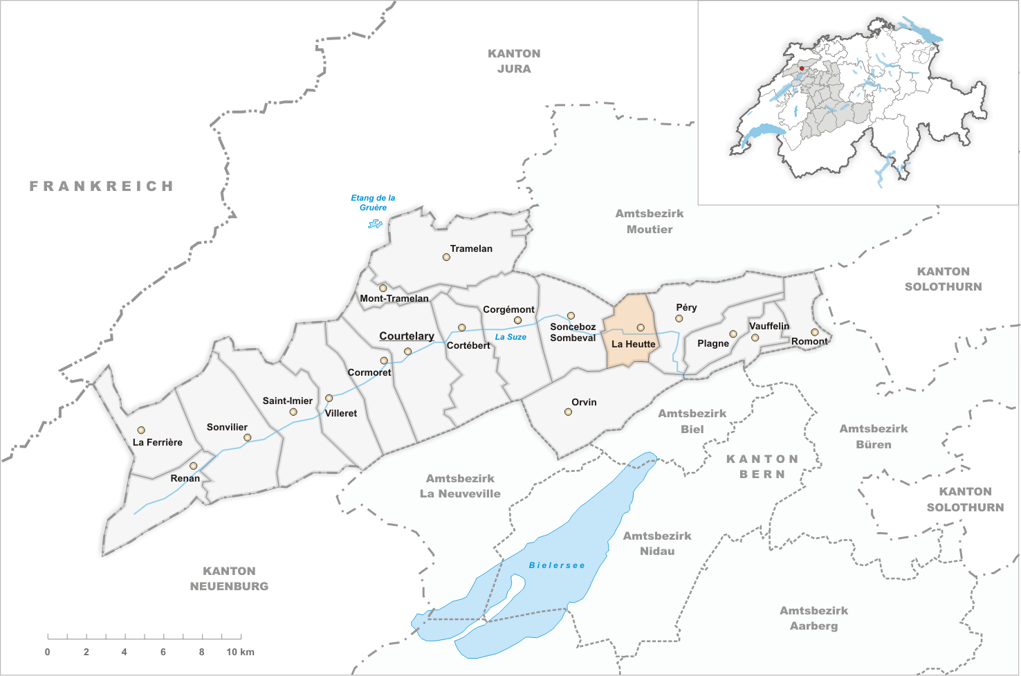 Municipality La Heutte